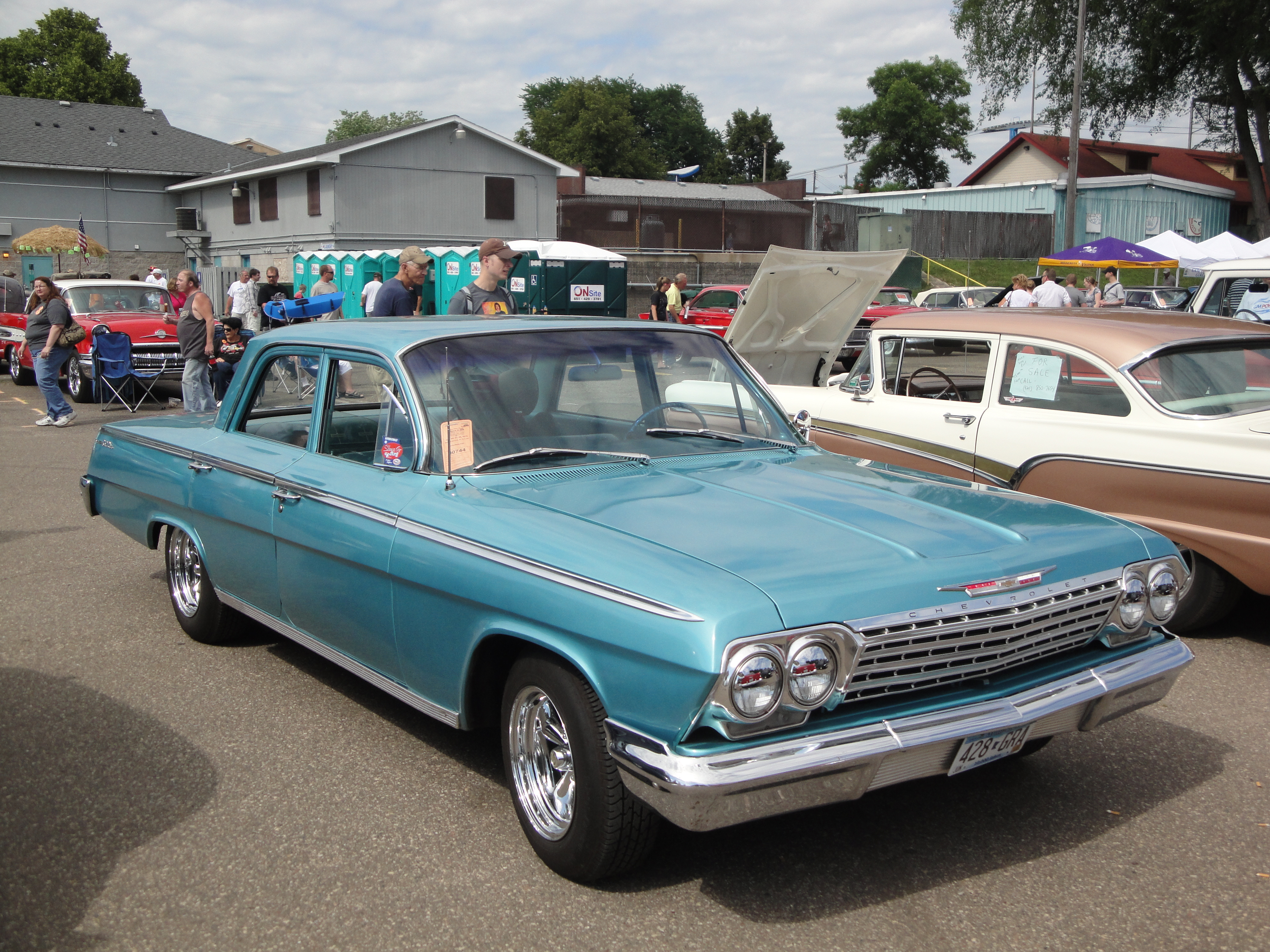 Minnesota Street Rod Association 39th Annual "Back to the Fifties" June 2012 Minnesota State Fairgrounds St. Paul MN